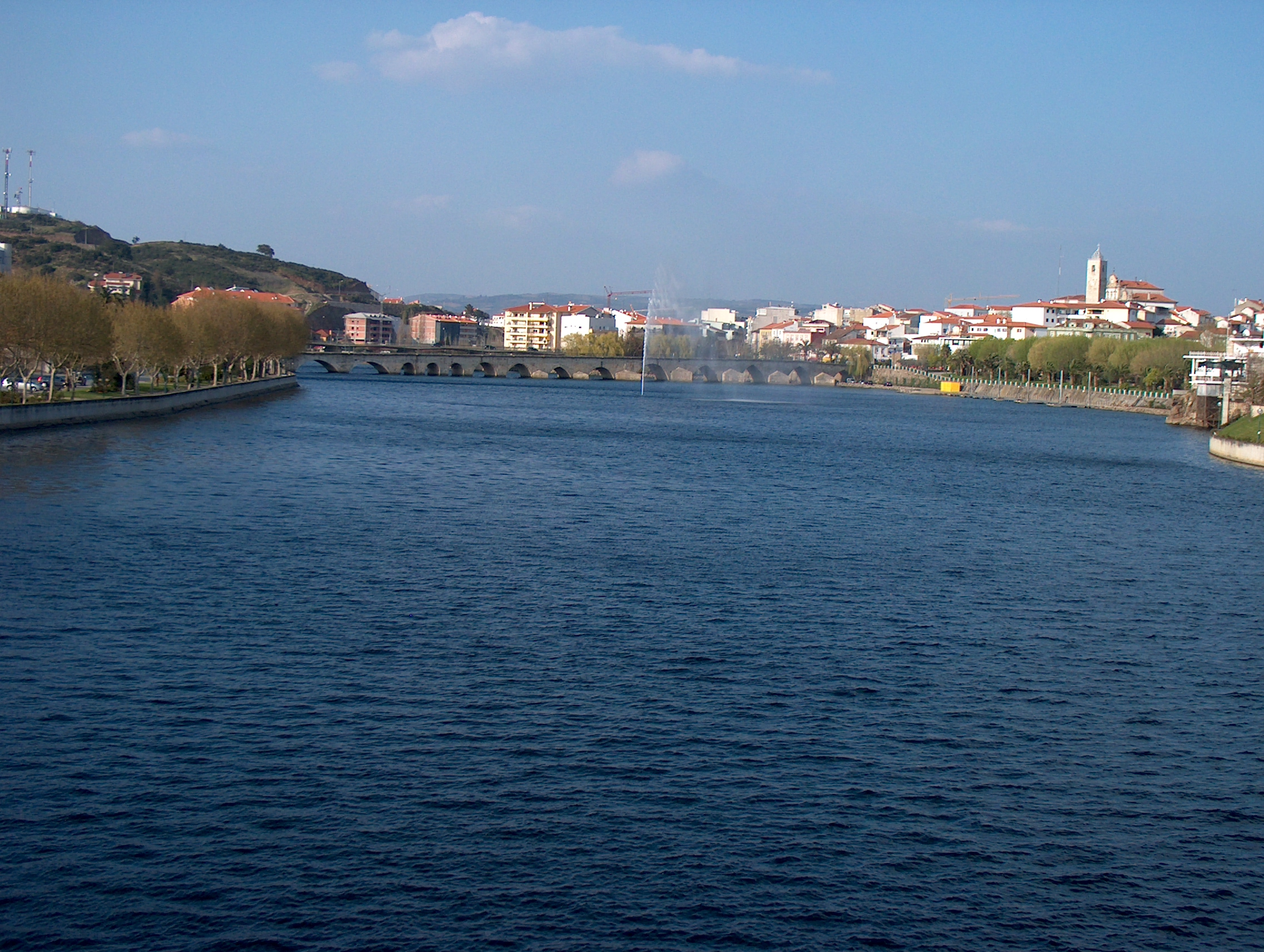 View of Tua river as it crosses through Mirandela, Portugal. Picture taken by User:Husond.